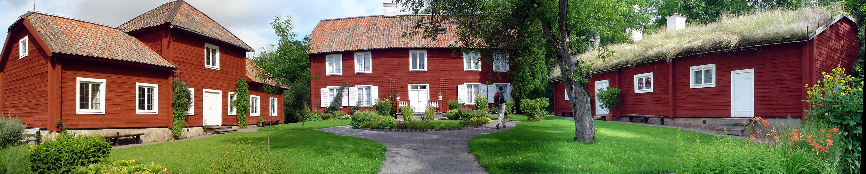 Linnés House in Hammarby